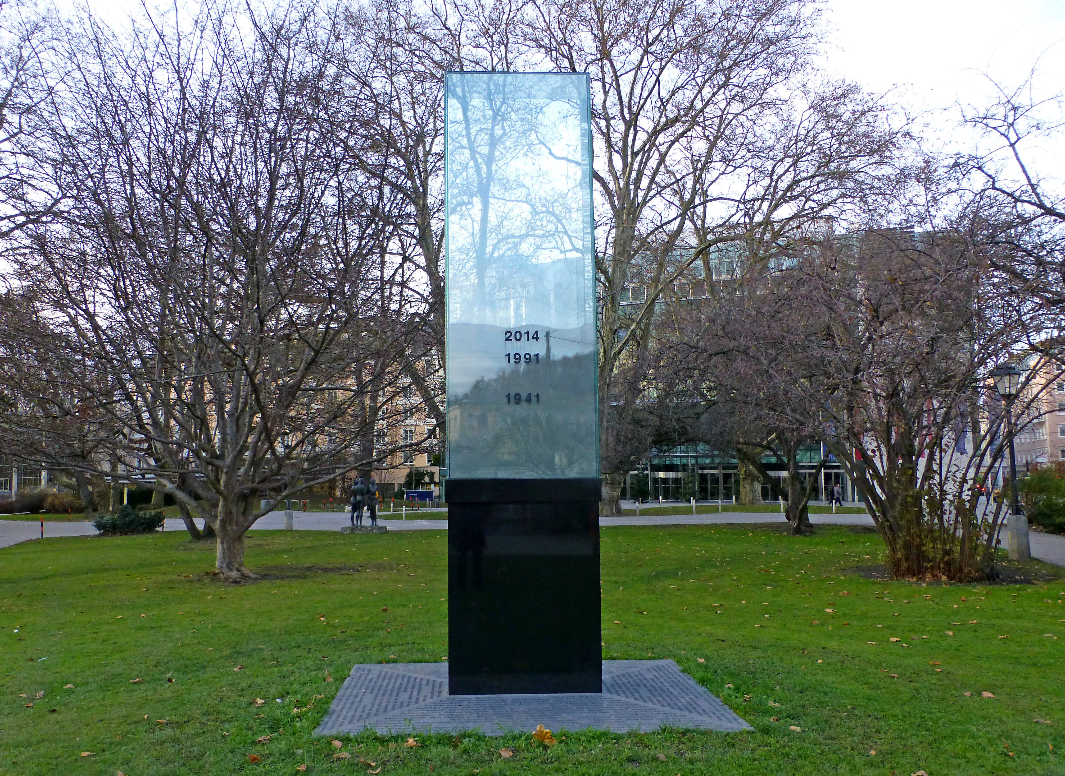 Memorial for the Salzburg victims of NS-Euthanasia 1940-1945.